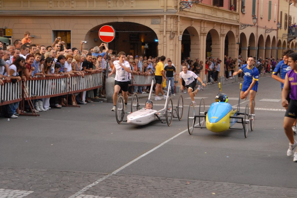 The Carrera Autopodistica it is a really unique competition in its way, which takes place in Castel San Pietro Terme, in the province of Bologna = During the race 2006